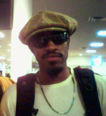 André 3000 (cropped from original)noah | andre 3000